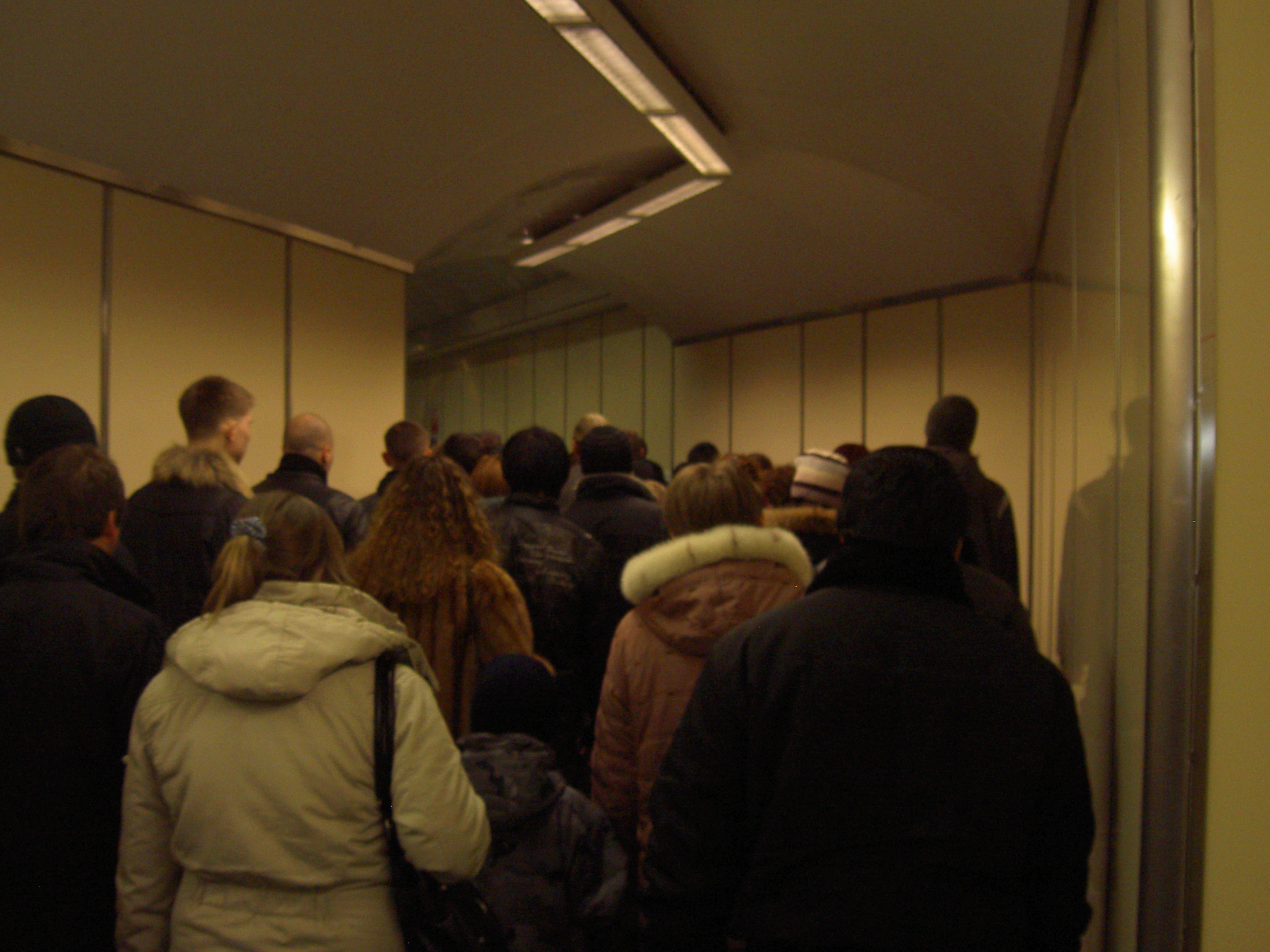 Crossing between metro stations «Spasskaya» and «Sadovaya».